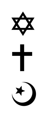 Jewish Star of David (top), Christian cross (middle), Islamic crescent moon with star (bottom)